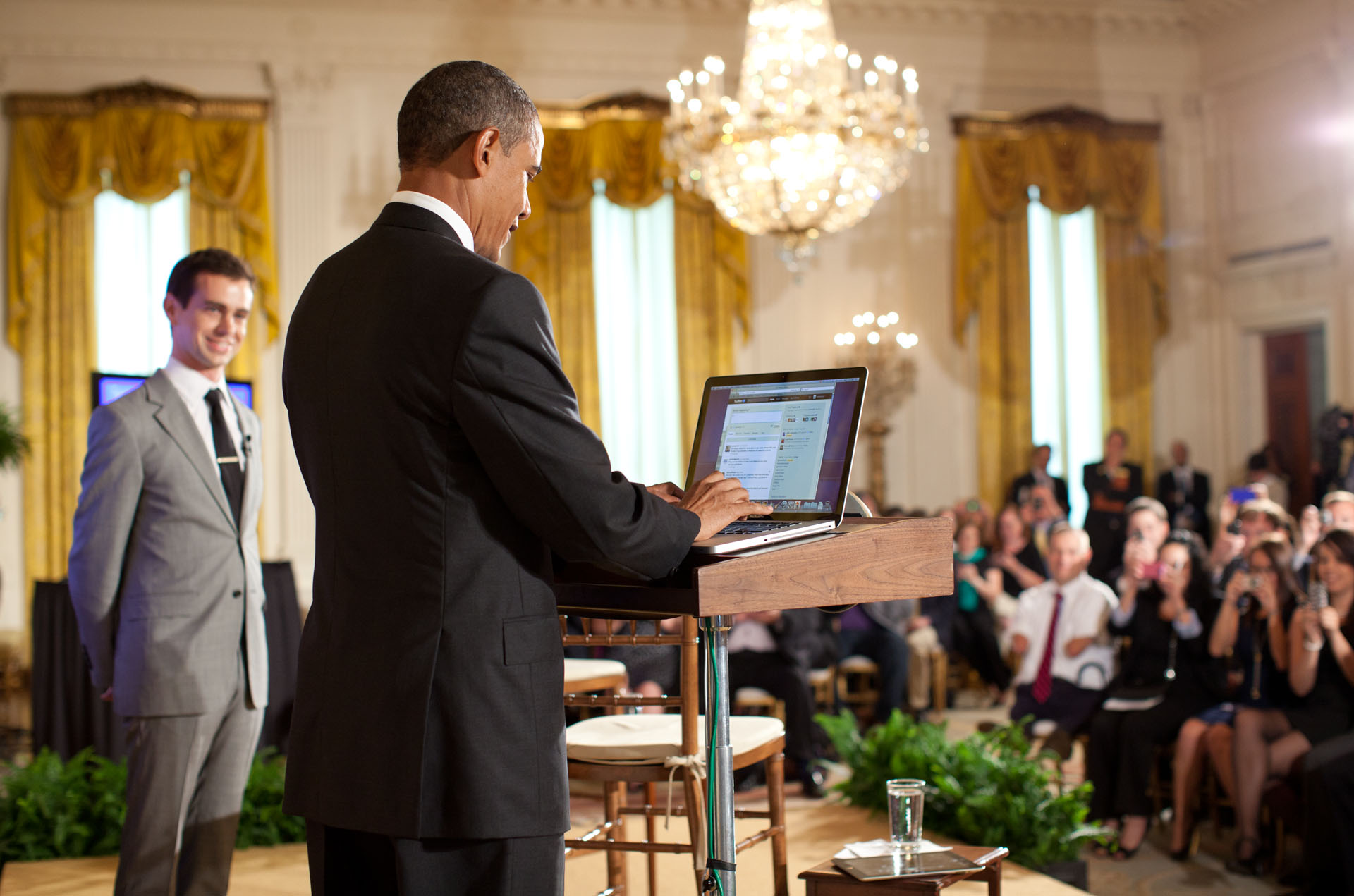 Barack Obama tweeting on July 6, 2011